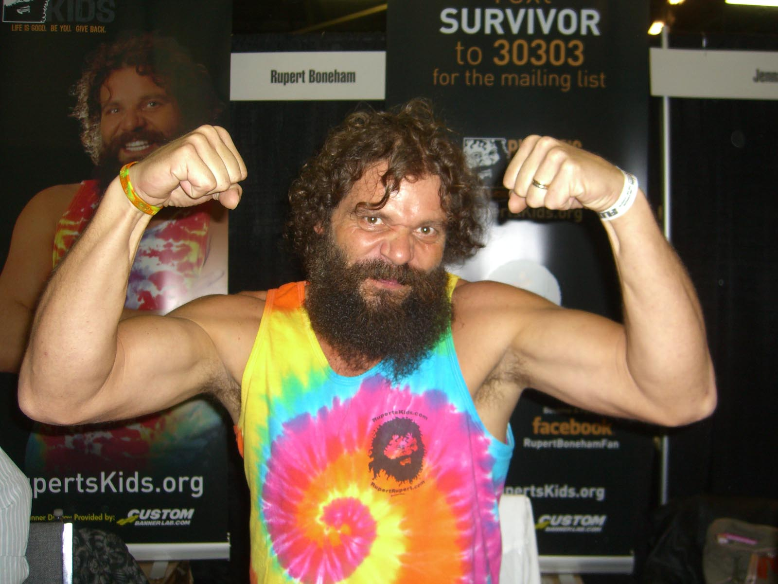 Reality television personality Rupert Boneham at the Big Apple Convention in Manhattan. This photo was created by Luigi Novi. It is not in the public domain, and use of this file outside of the licensing terms is a copyright violation.